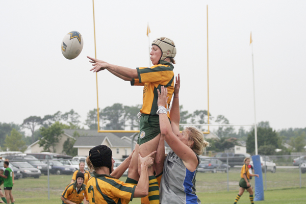 NC Hustlers vs. Midwest II Women's rugby game Some rights reserved. Free for use provided proper attribution given to author.